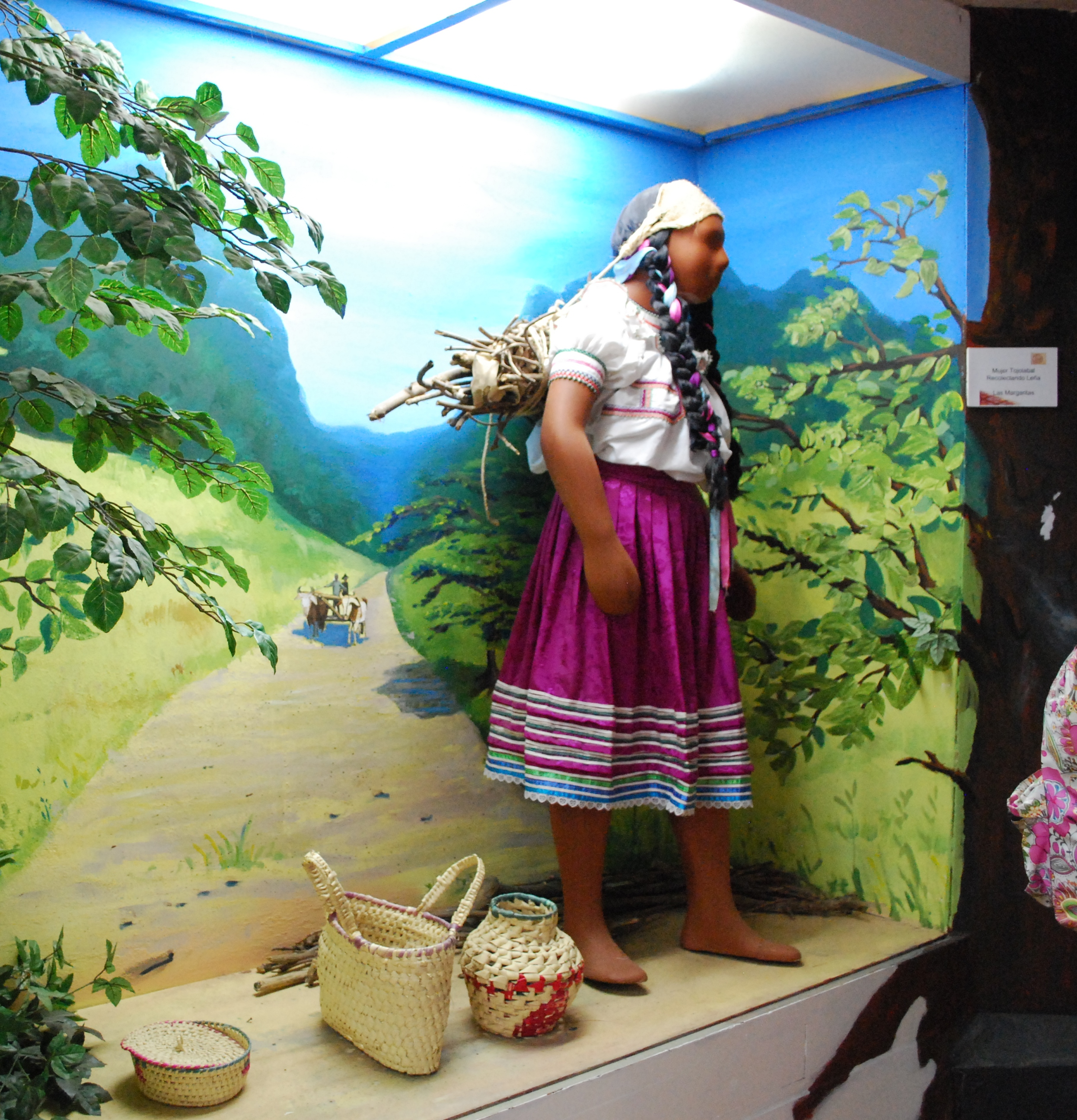 Tojolabal display at the Museo de las Culturas Populares de Chiapas in San Cristobal de las Casas, Chiapas, Mexico